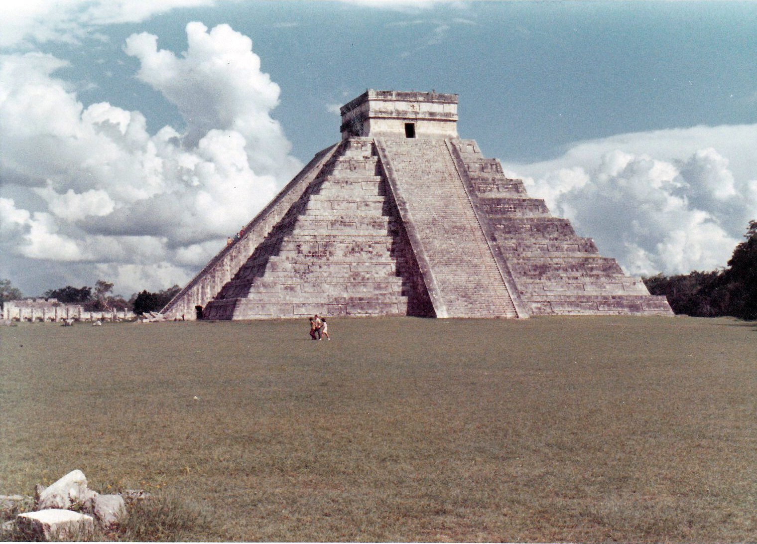 Visiting Chichen Itza, June 1969